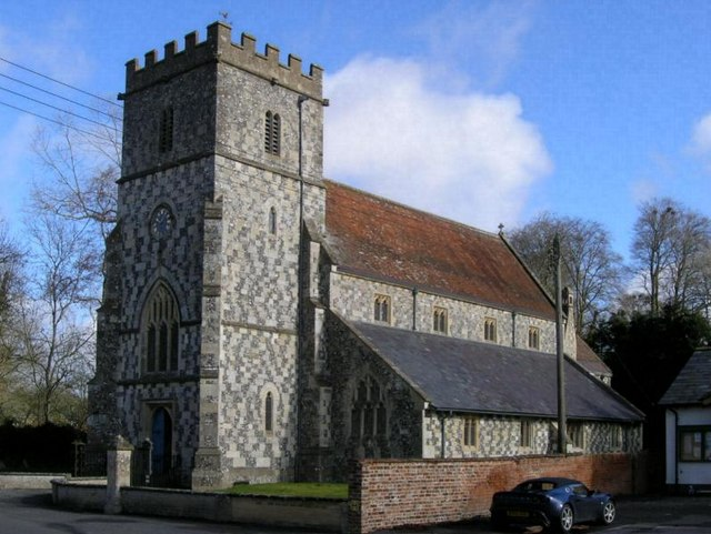 All Saints and St Mary parish church, Chitterne, Wiltshire, seen from the south